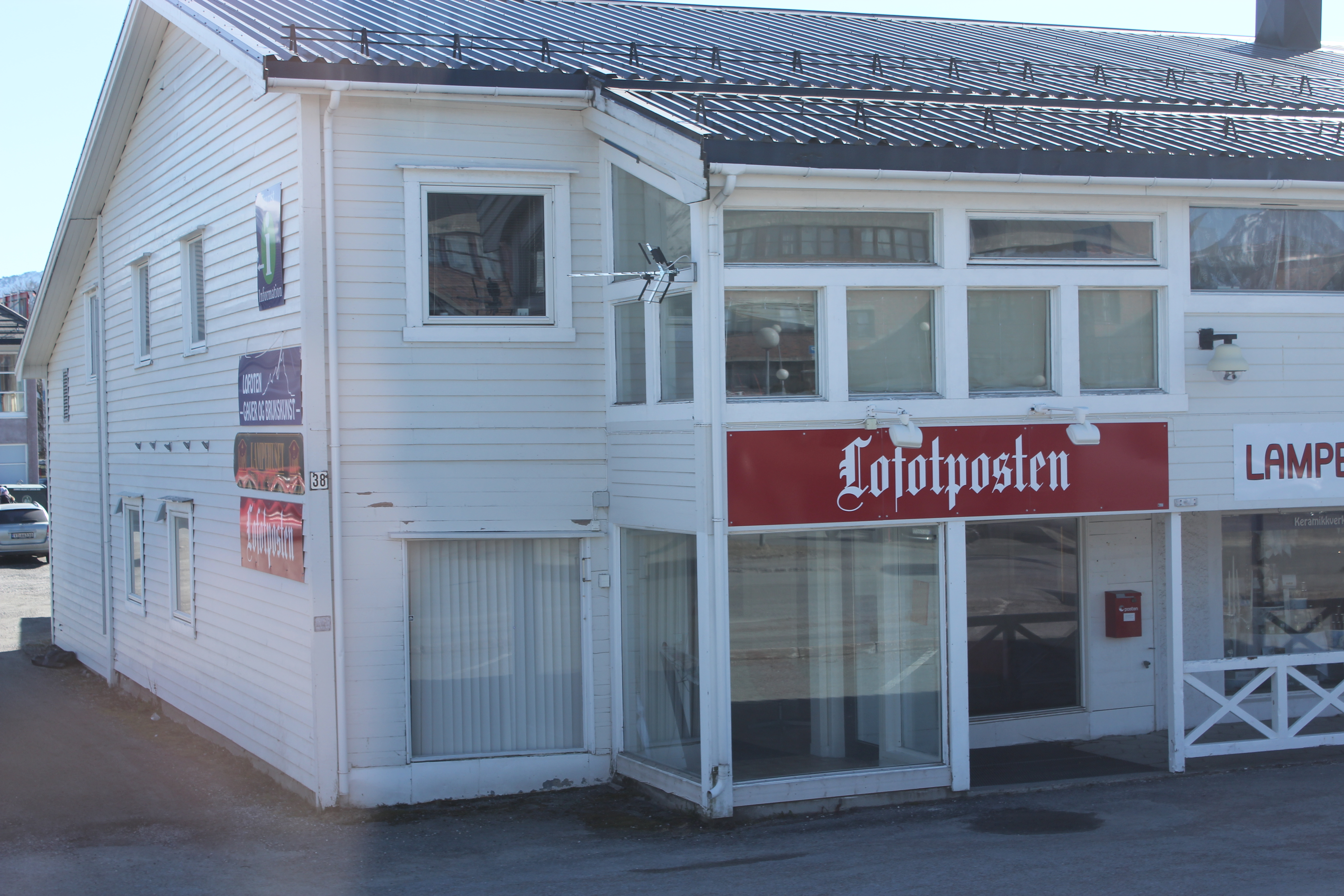 The building of the local newspaper Lofotposten in Leknes, Lofoten, Norway.